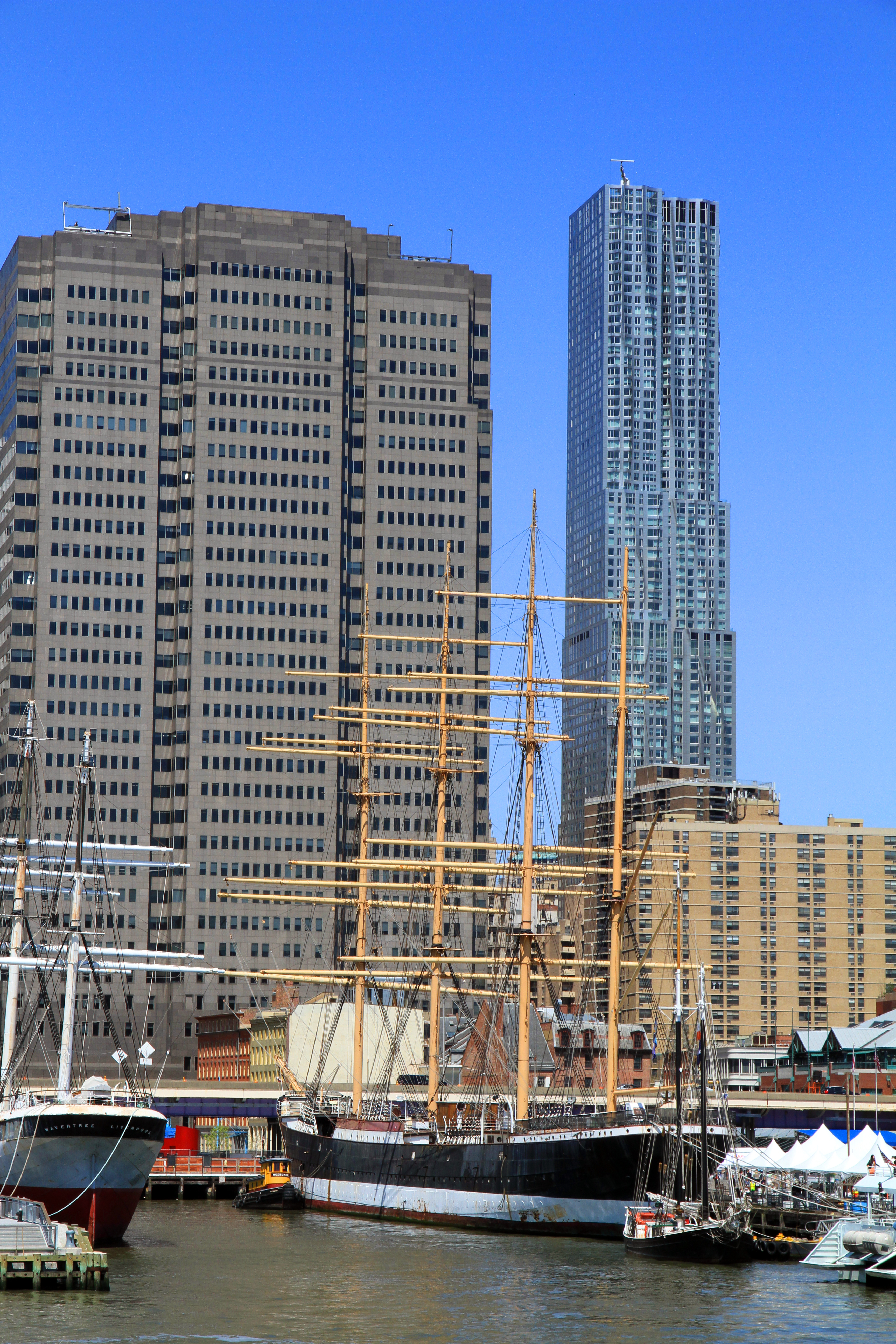 Pier 15 & 16a